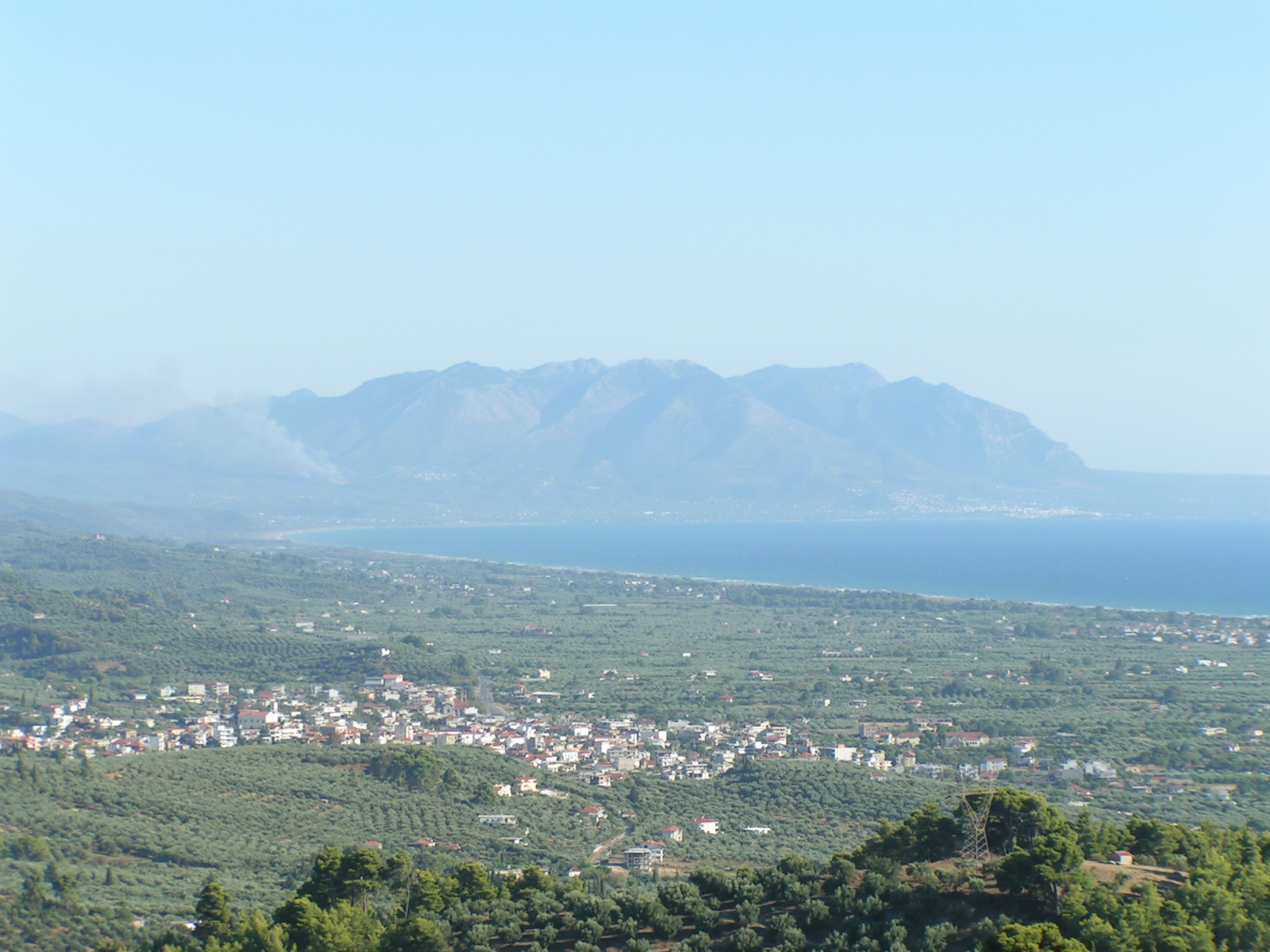 vief of Zacharo and Gulf of Kyparissia from Lapithas mountain.